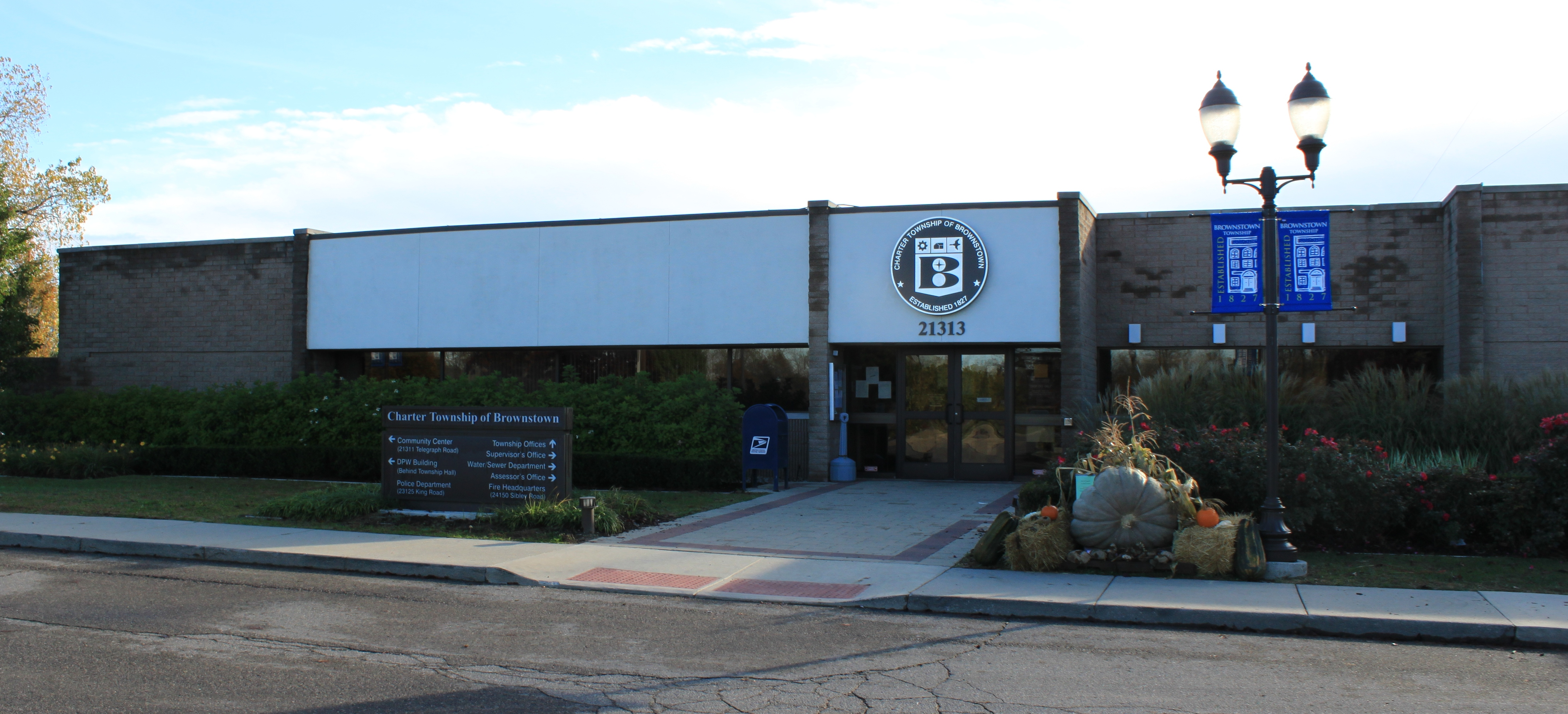 Brownstown Township Offices, 21313 Telegraph Road, Brownstown Township, Michigan